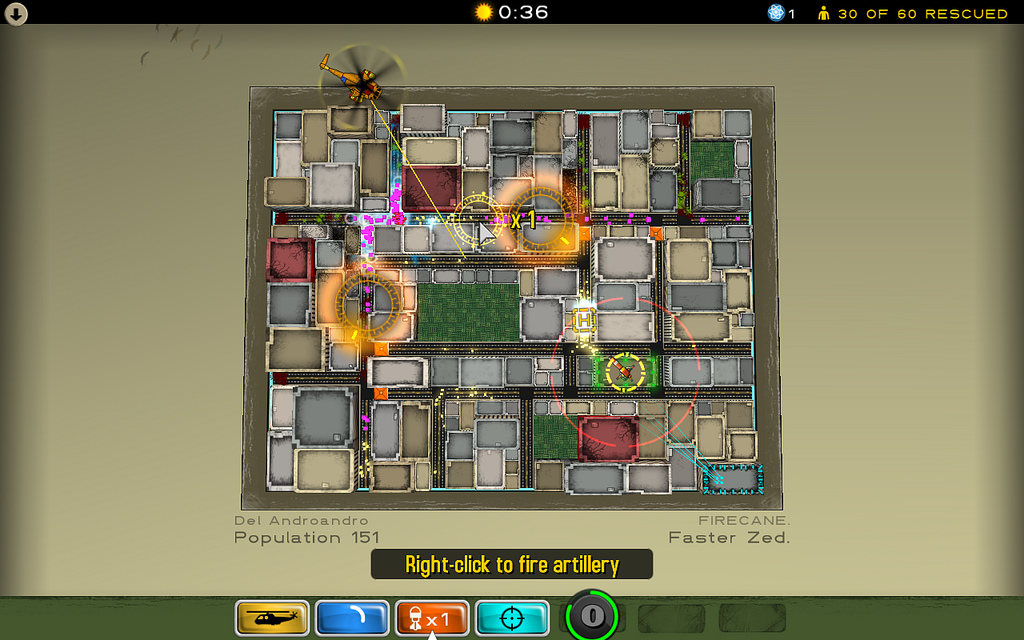 Atom Zombie Smasher - cityscape